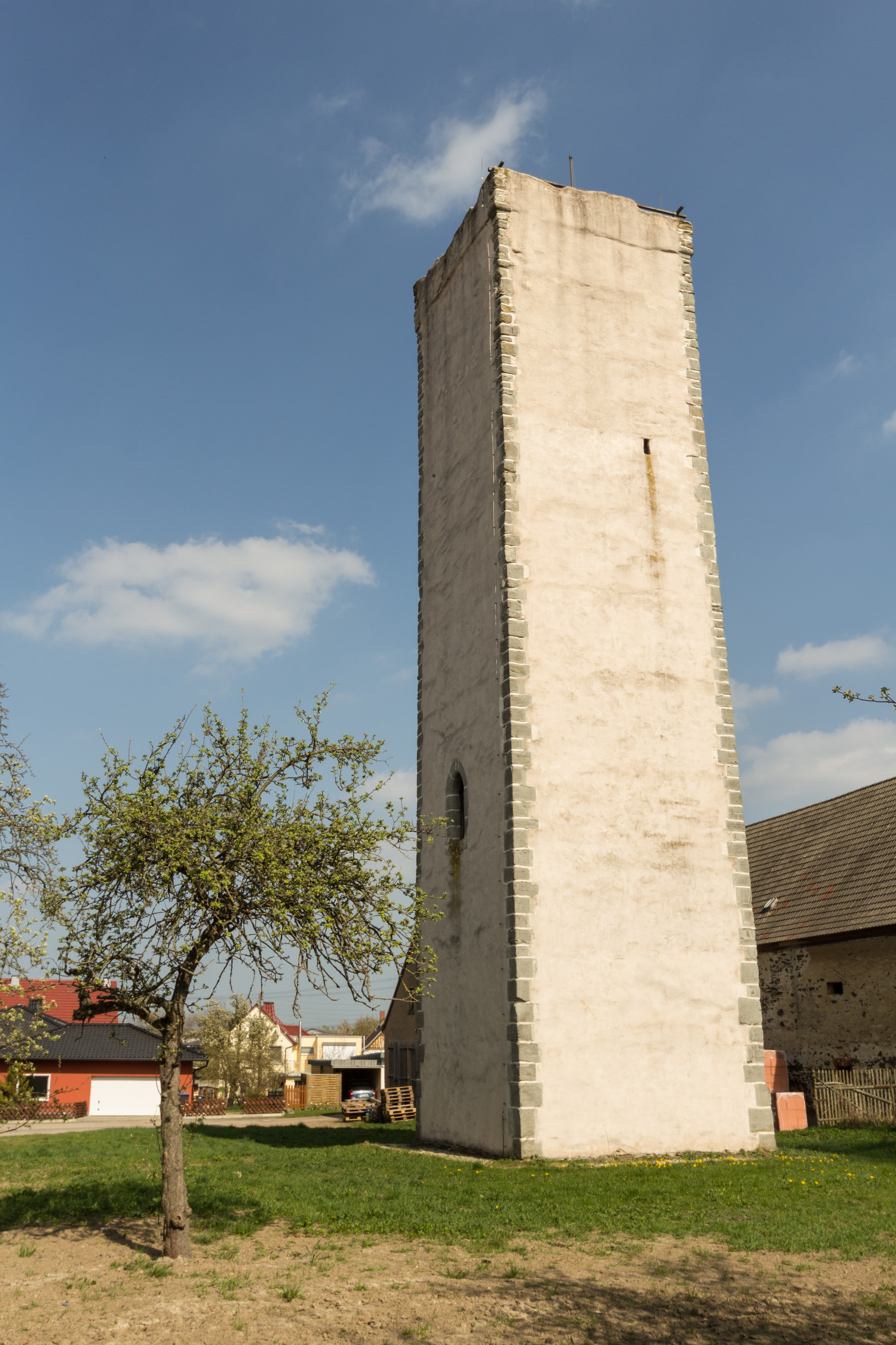 tower nearby the village square of Niederpöllnitz